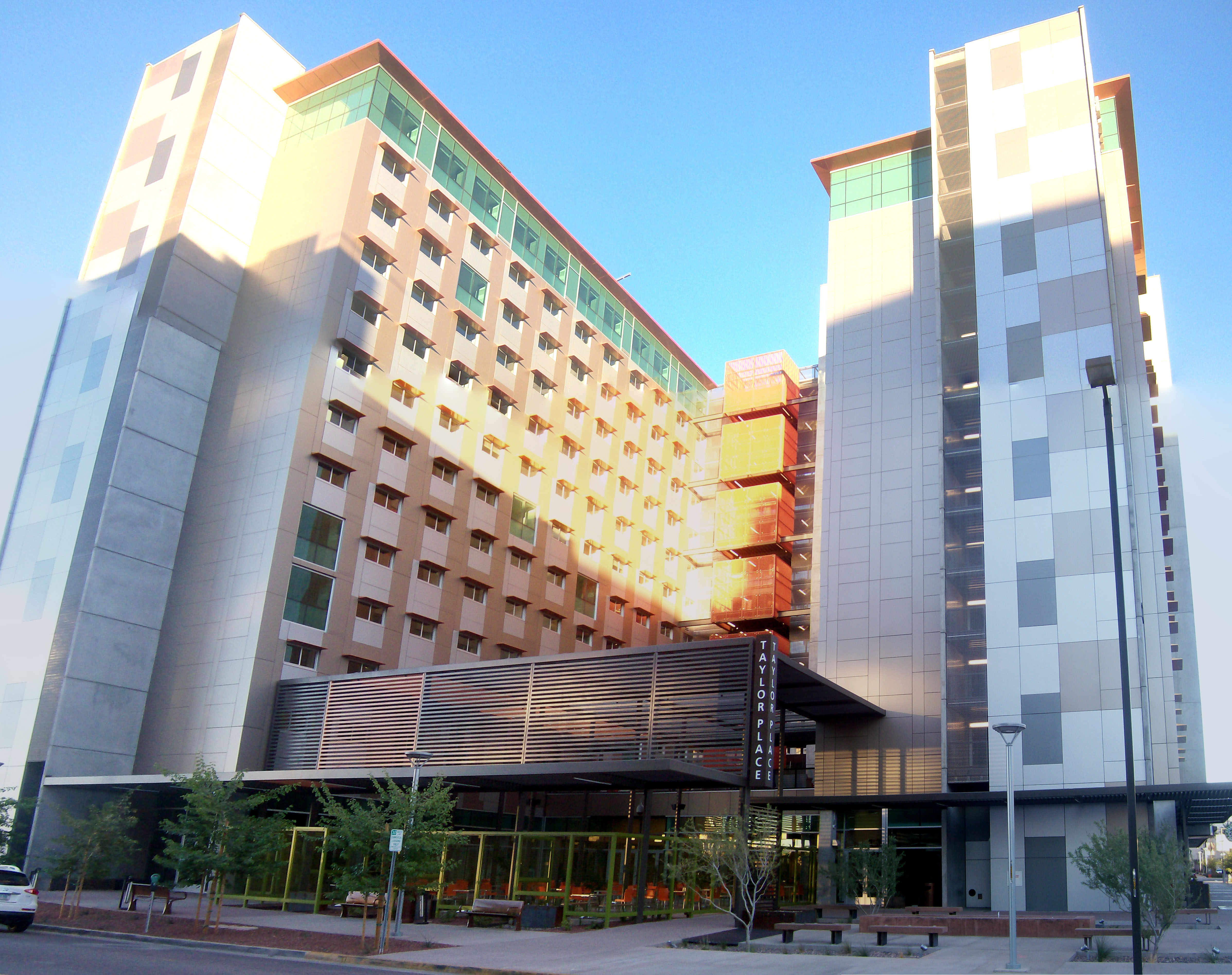 Photo of the Taylor Place dorm building. Part of the ASU Downtown Phoenix Campus in Phoenix, Arizona